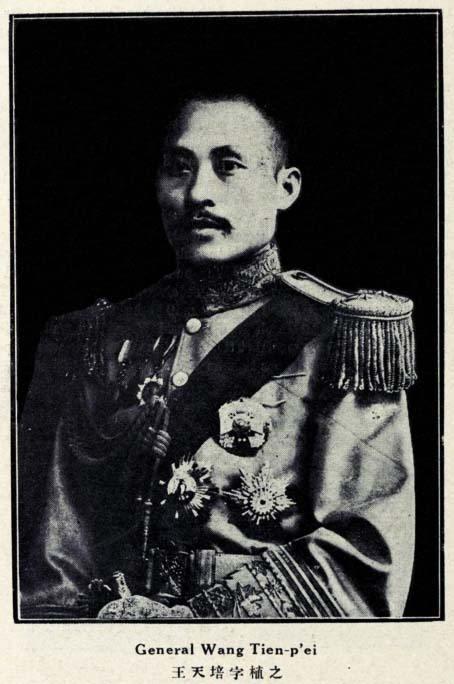 Wang Tianpei, Zhizhi (1888 - 1927)